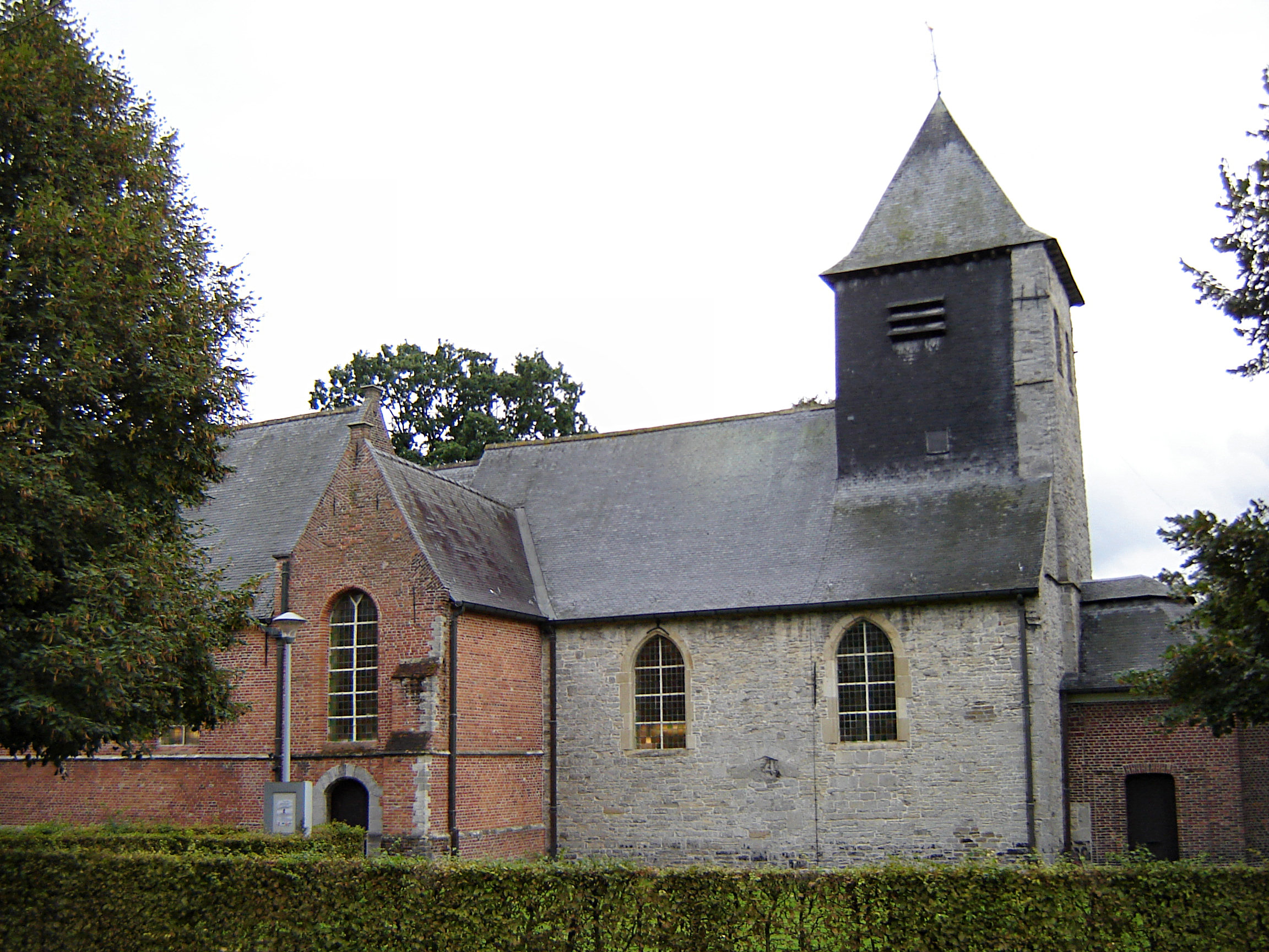 Old church of Saint Stephen and Saint Theodoric in Vichte. Vichte, Anzegem, West Flanders, Belgium